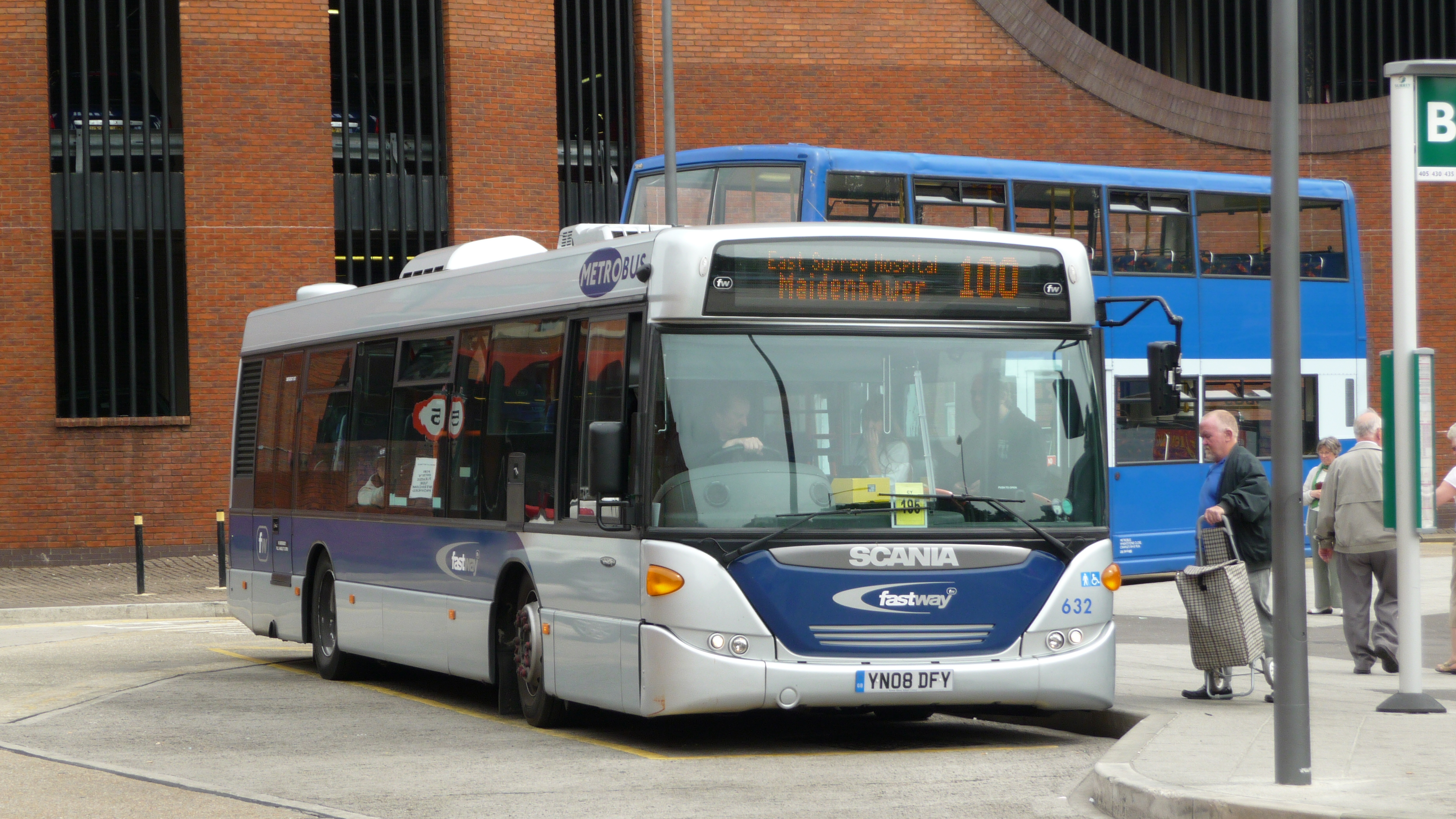 Metrobus 632 (YN08 DFY), a Scania CN230UB OmniCity, in Redhill bus station, on route 100. It is stopped at Stand B, despite route 100 being allocated to Stand C. This is a good demonstration of how the new design of the bus station is too cramped.